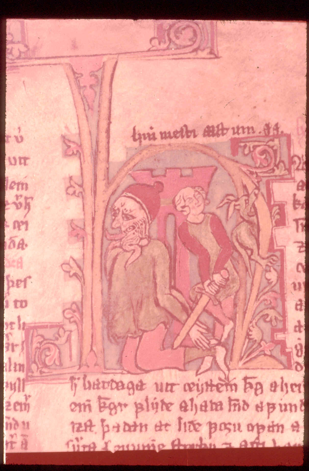 King Harald Fairhair releases his foster-father, the giant Dofri. Miniature from Flateyjarbok.